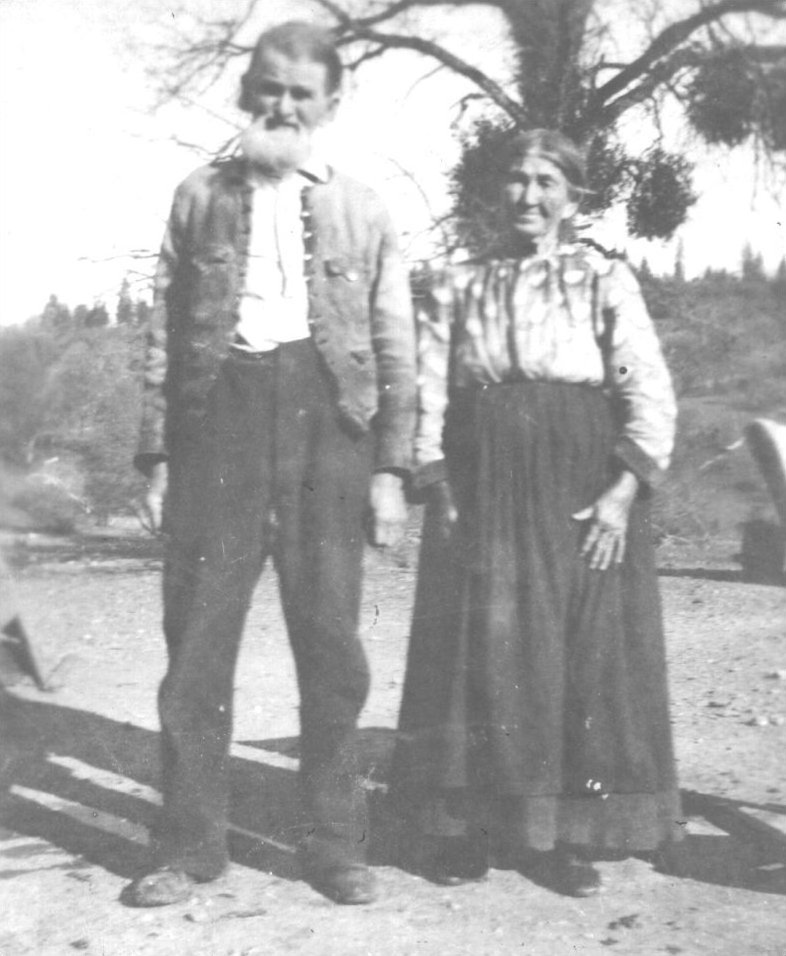 John Fletcher Crabtree and his wife Elizabeth, Crabtree Hot Springs, Mendocino National Forest, Lake County, California